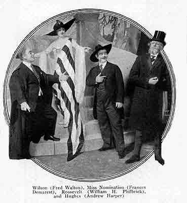 Photo of a scene from The Passing Show of 1916. Publicity photo taken in 1916.